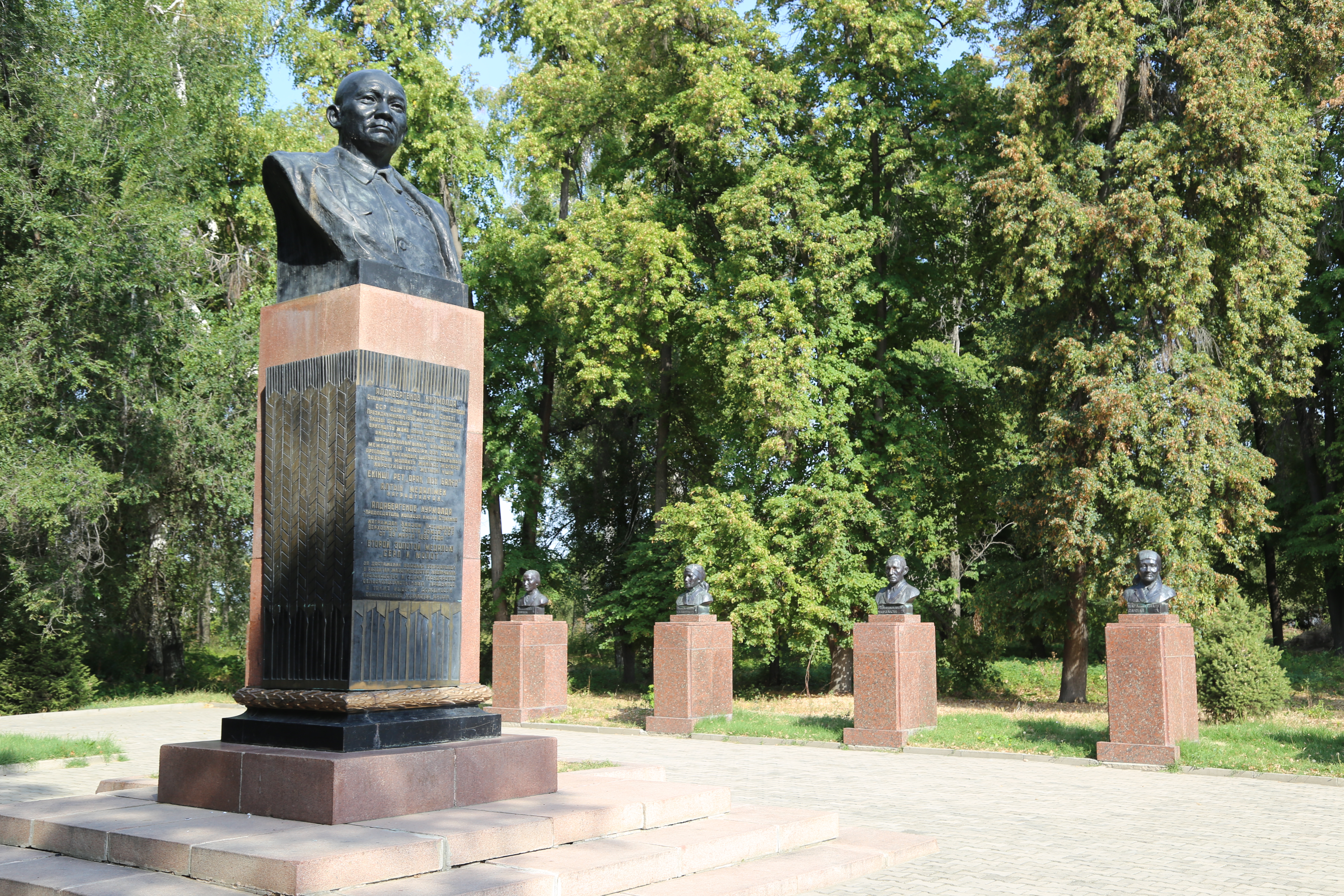 Aldabergenov Monument